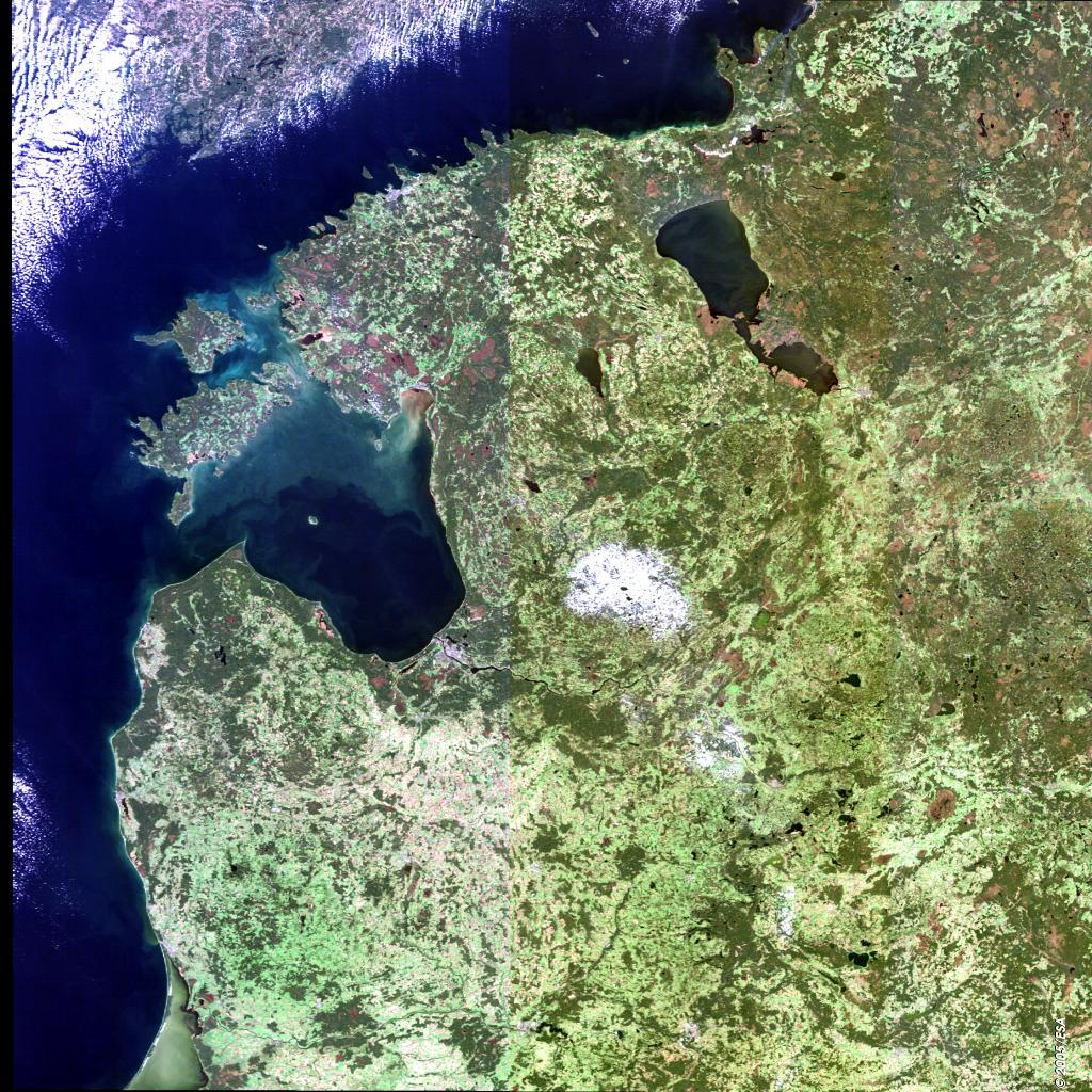 MERIS Estonia